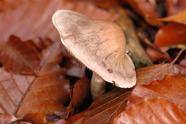 Cortinarius anomalus from Commanster, Belgium. If you think this is a different taxon, please contact James Lindsey.